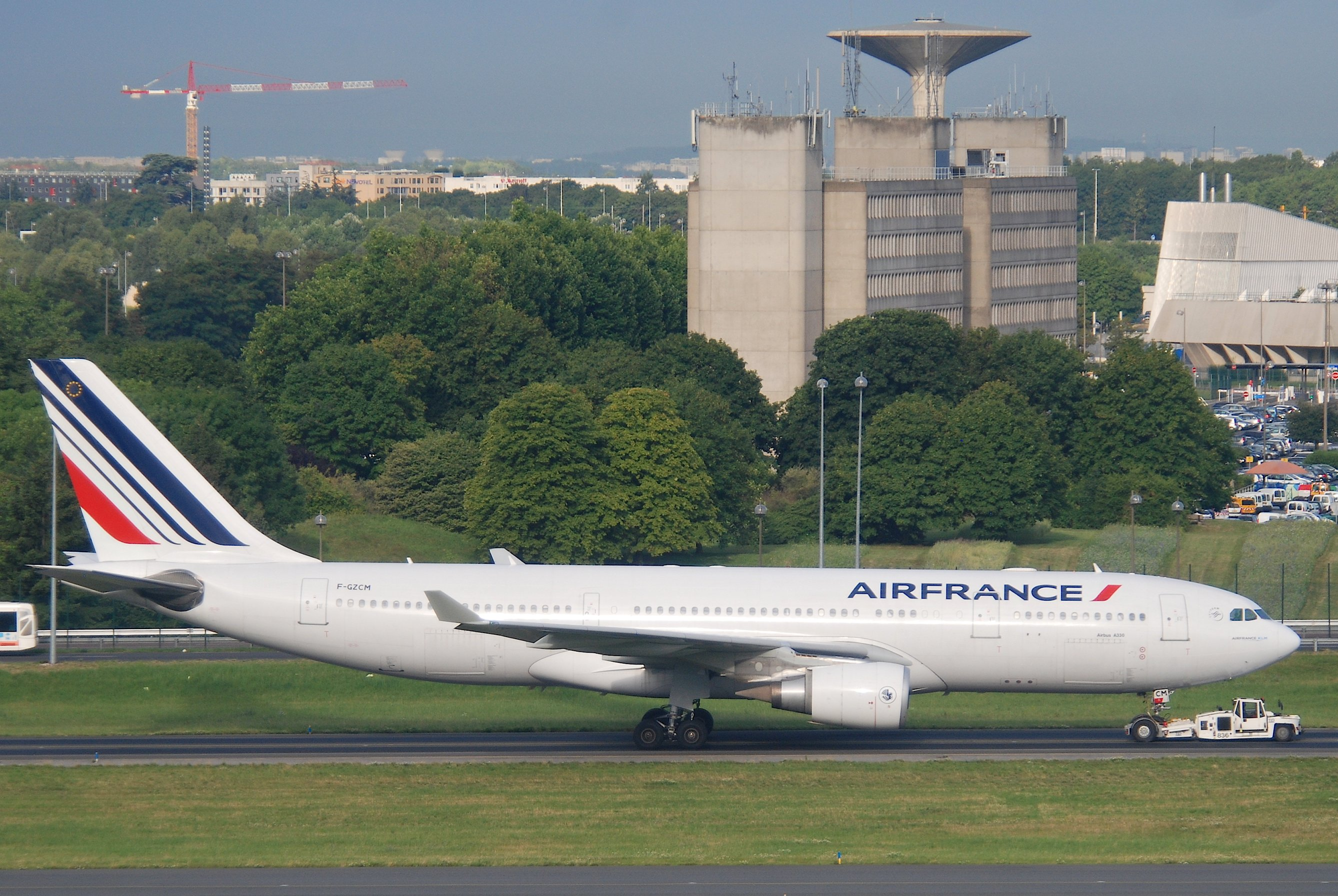 Air France Airbus A330-203; F-GZCM@CDG;10.07.2011/605bn